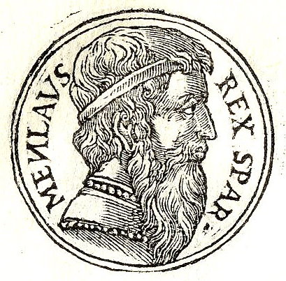 Menelaus (Ancient Greek: Μενέλαος) was a king of Sparta, the husband of Helen, and a central figure in the Trojan War.